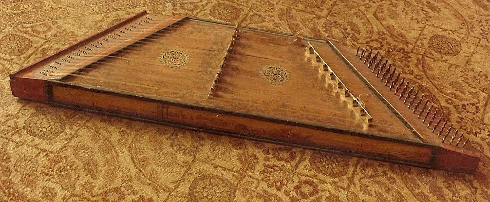 Dulcimer from the Hans Adler Memorial Music Museum, South Africa. Other information: Displayed at Witwatersrand University Hans Adler Memorial Museum, Johannesburg ZA